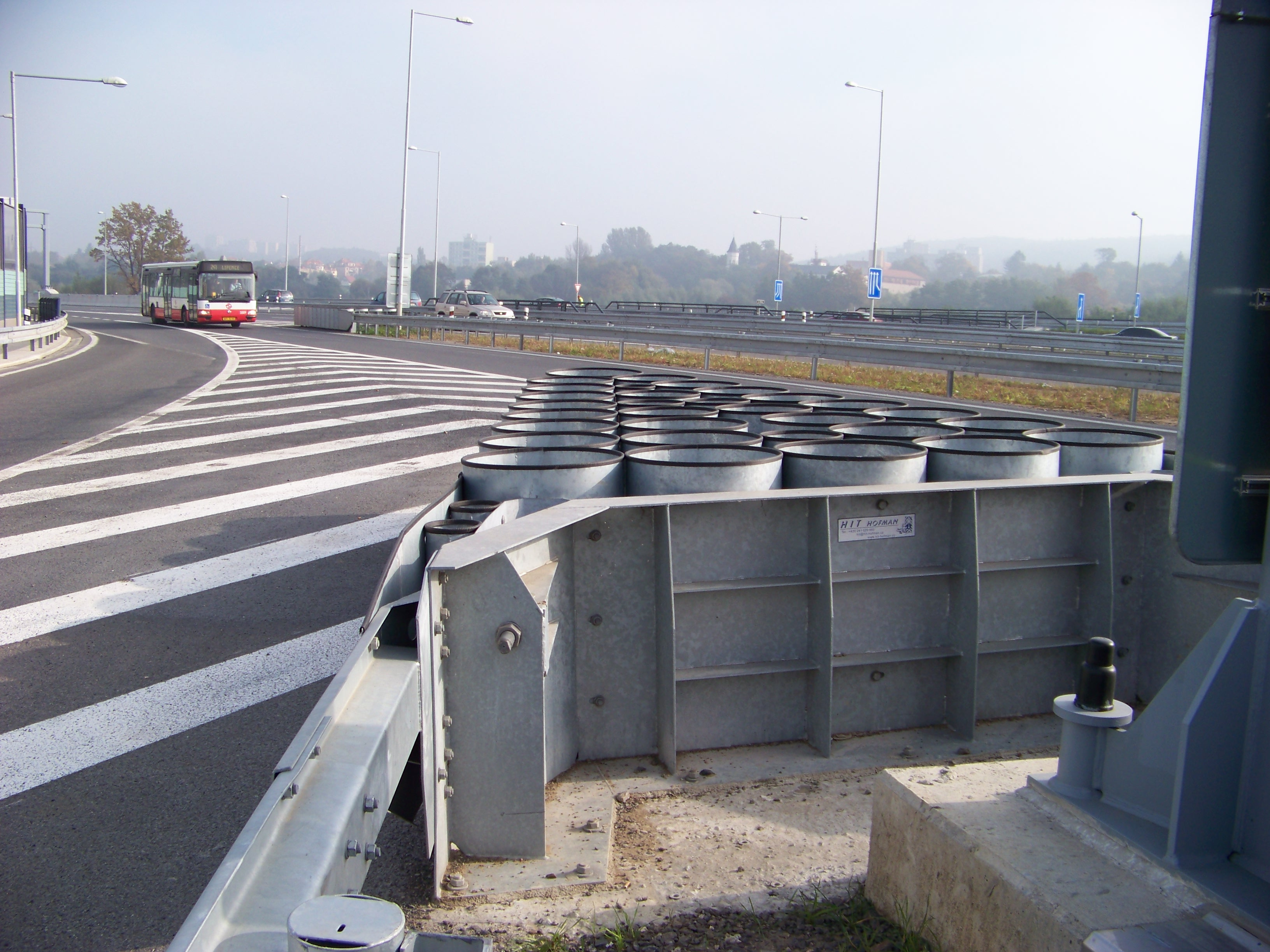 Prague-Lahovice, the Czech Republic, Strakonická street, Lahovice Interchange. A road equipment Vecu-Stop by SPS Schutzplanken GmbH.